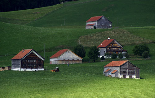 Traditional houses of Appenzell, in Switzerland